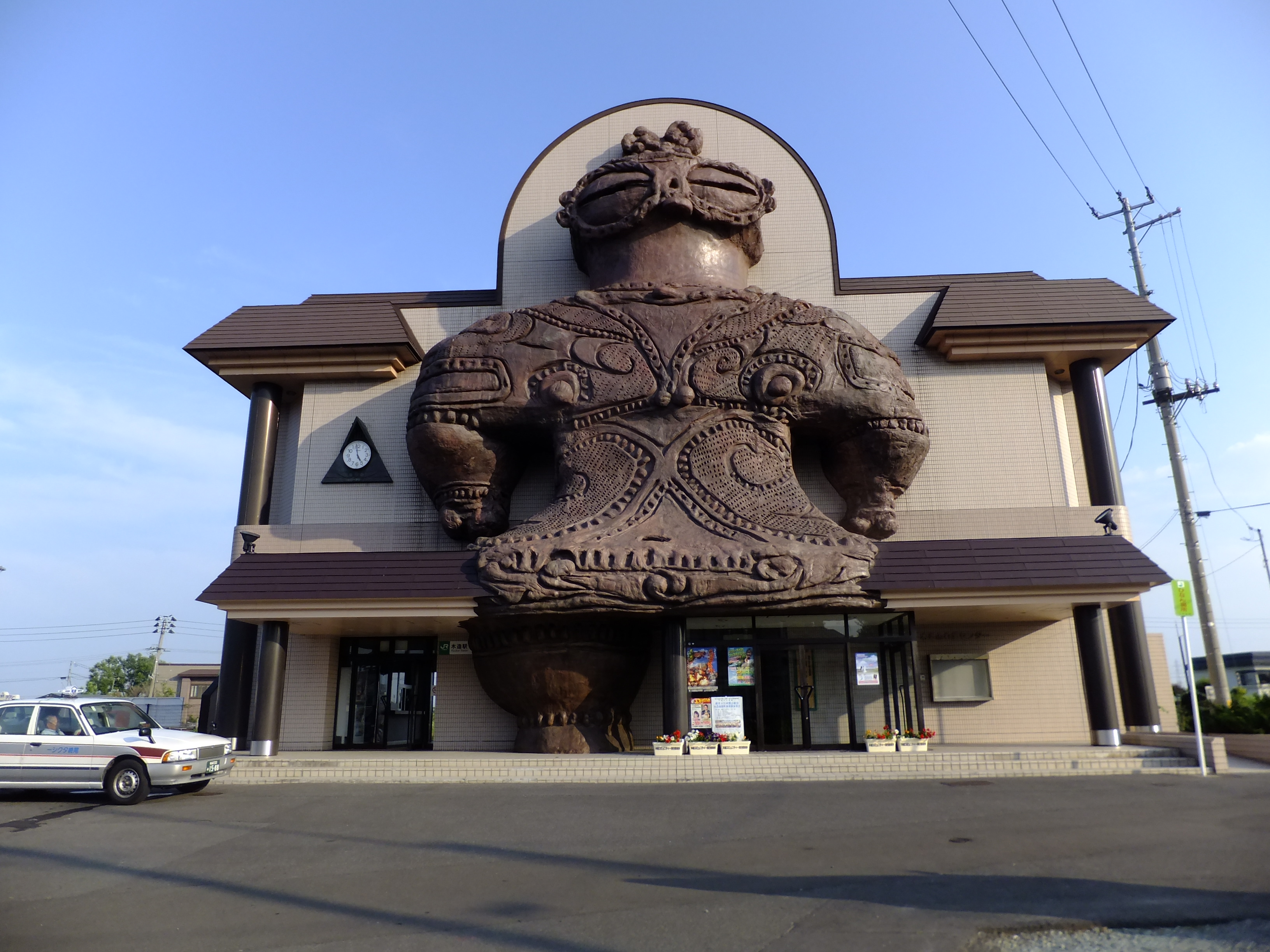 Kizukuri Station on Gono Line, in Tsugaru, Aomori Prefecture, Japan.